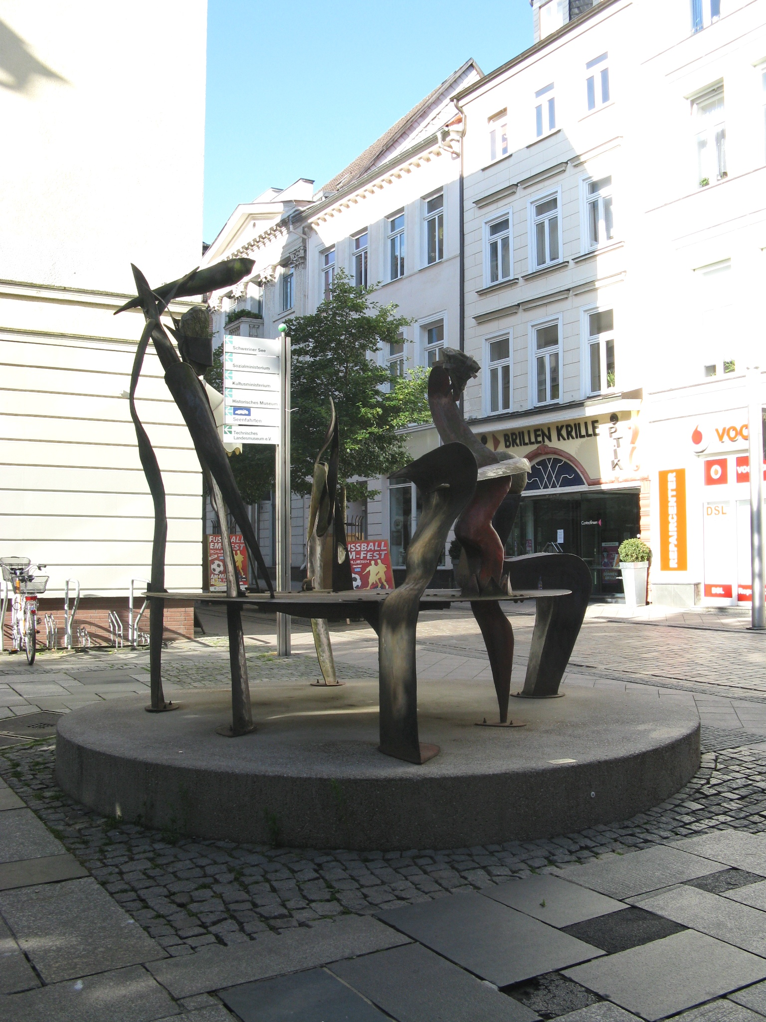 Sculpture Round table by Guillermo Steinbrücken in Schwerin's city, Puschkinstraße